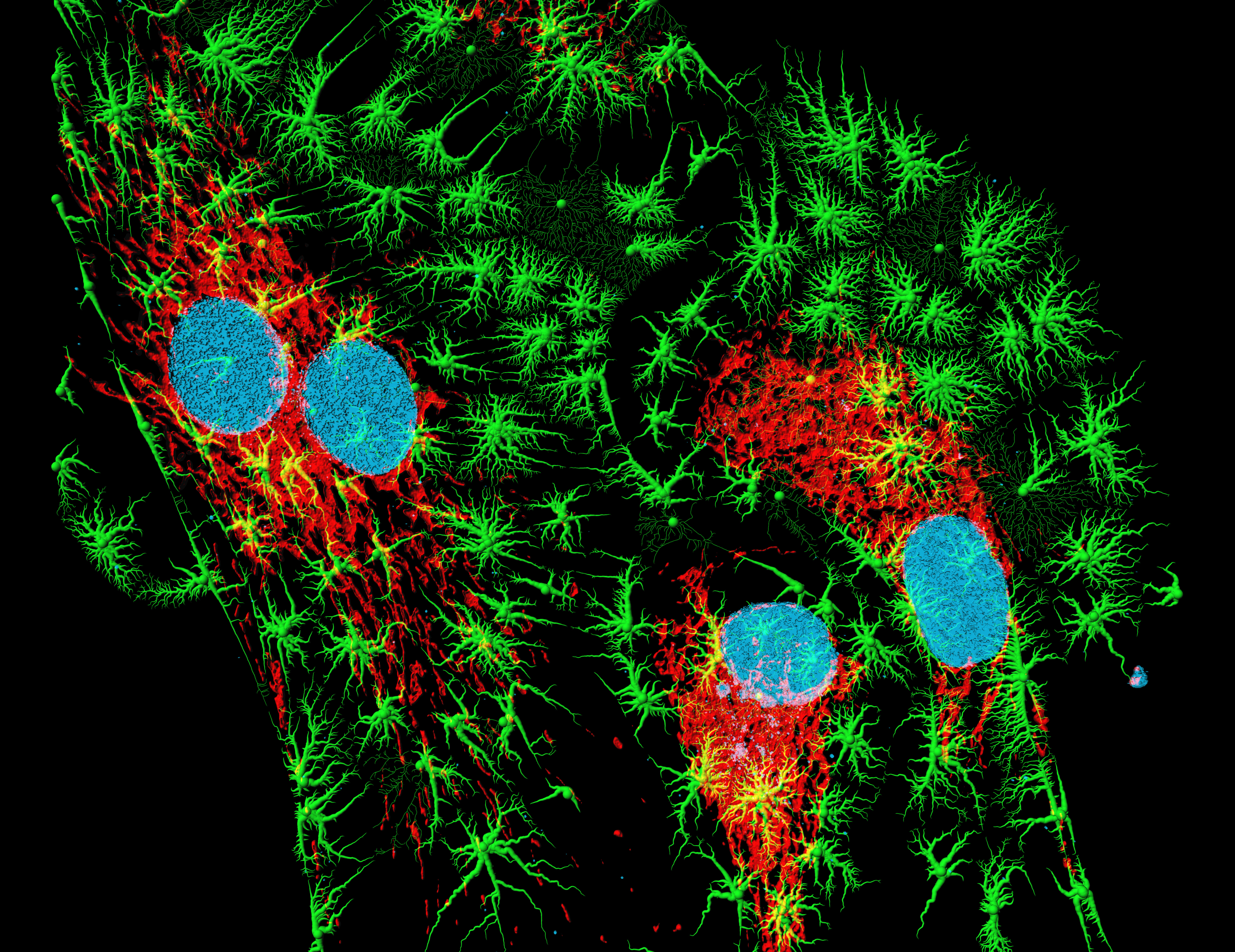 Bovine pulmonary artery endothelial cells in culture. Blue: nuclei; red: mitochondria; green: microfilaments. Computer generated image from a 3D model based on a confocal laser scanning microscopy using fluorescent marker dyes.